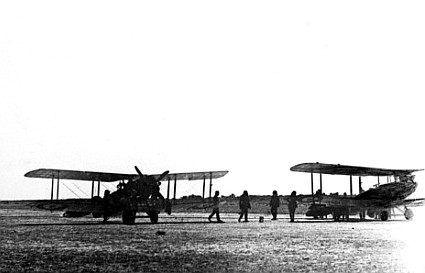 Two De Havilland DH9 aircraft at the aerodrome camp near Azrak. (AINN 3323). One of the roles of 1 Squadron, as part of 40th Wing, was strategic reconnaissance, out of which photographic reconnaissance developed. Deficient and inaccurate maps led to 1 Squadron flying a number of missions taking a series of overlapping images which were used to remap various localities. Five aircraft were detailed for this work, flying in line at 1000 yards apart, and escorted by three Bristol Fighter aircraft. The volume of work produced by 1 Squadron can be gauged by its output between 1 March 1918 and 30 June 1918. 78 photographic reconnaissance missions were flown producing 1894 exposed plates and 19423 prints.